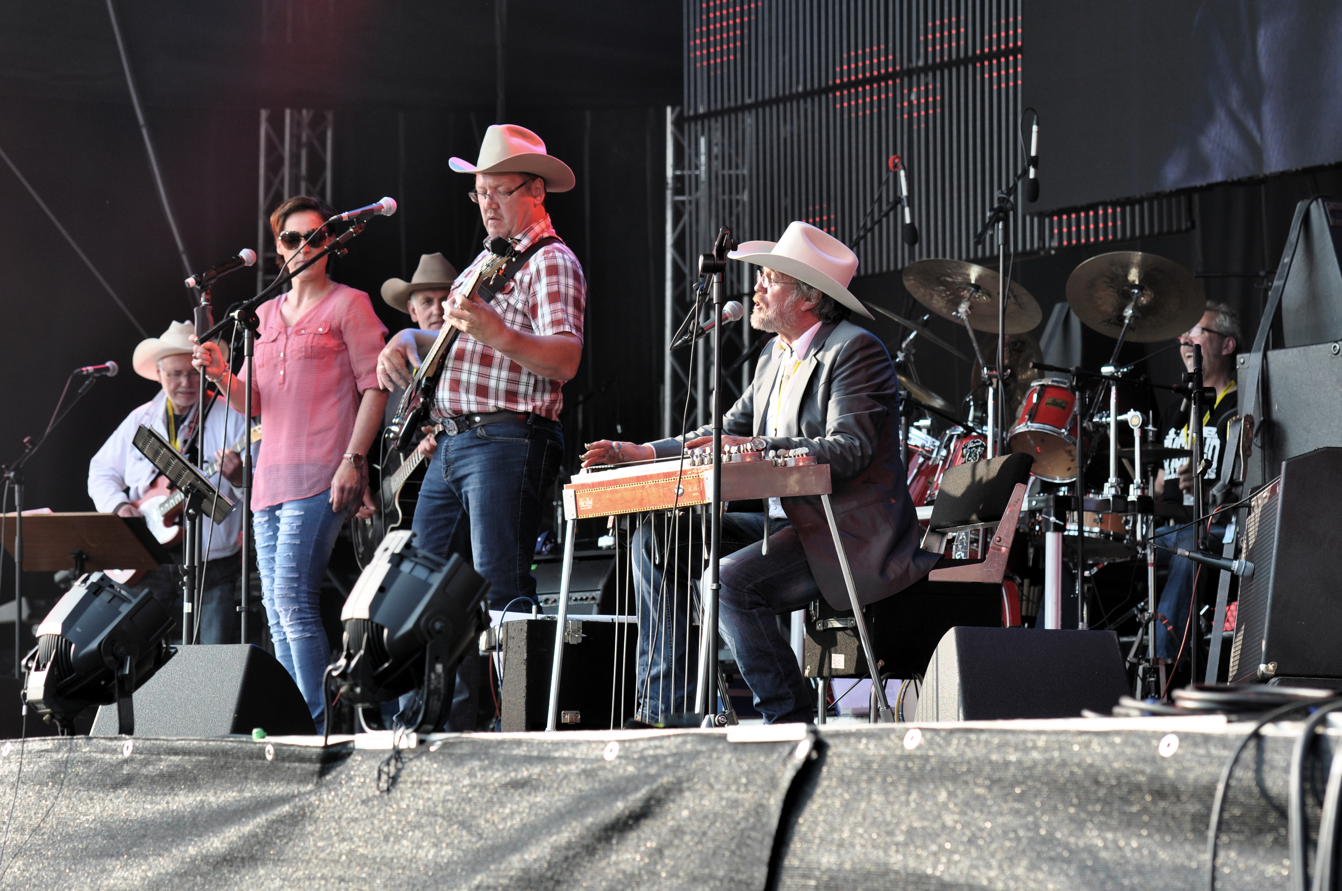 The Emsland Hillbillies at the International Truck Grand Prix Country Festival 2013, Nürburgring, Germany